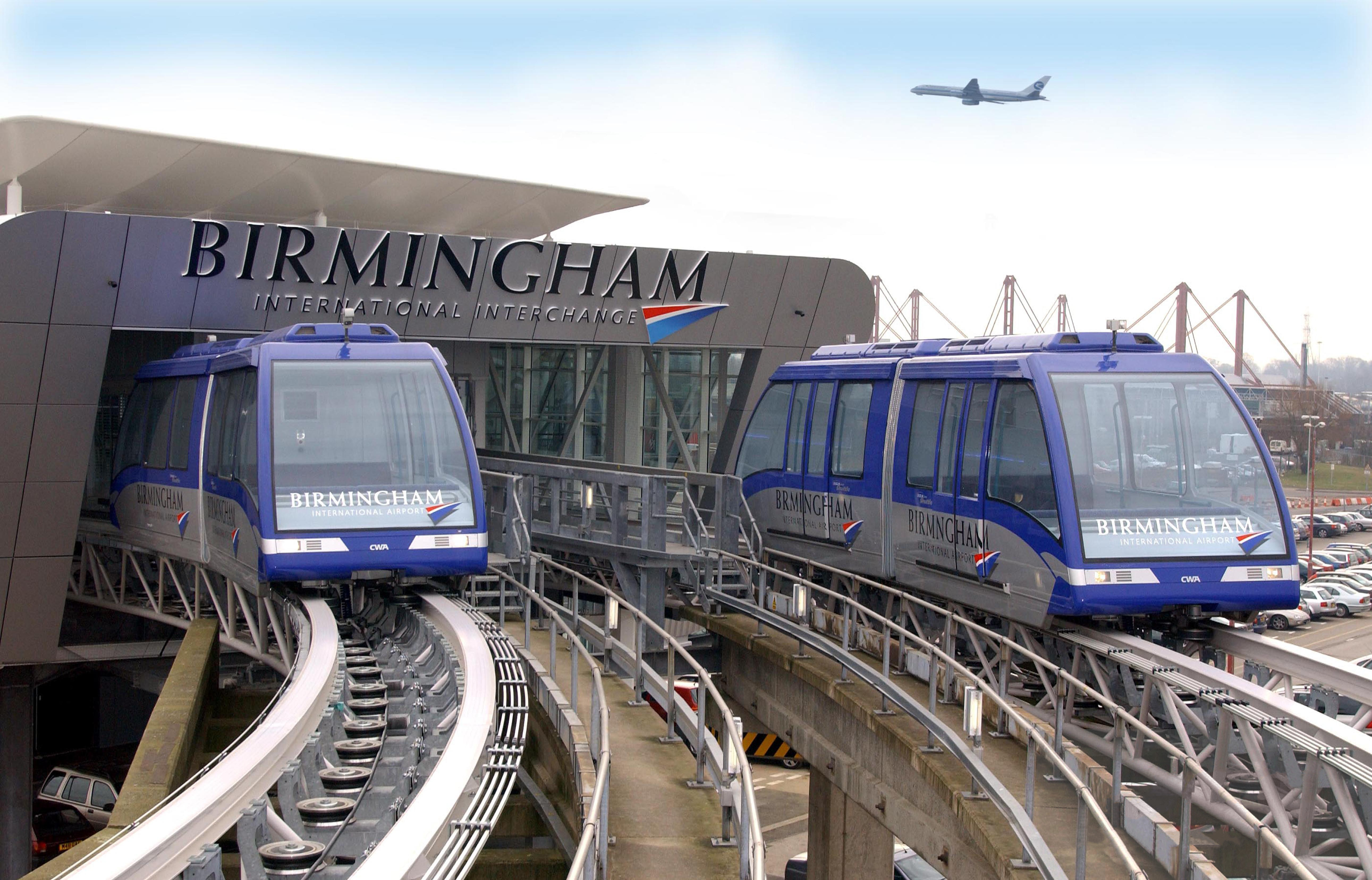 AirRail Link at Birmingham International Airport